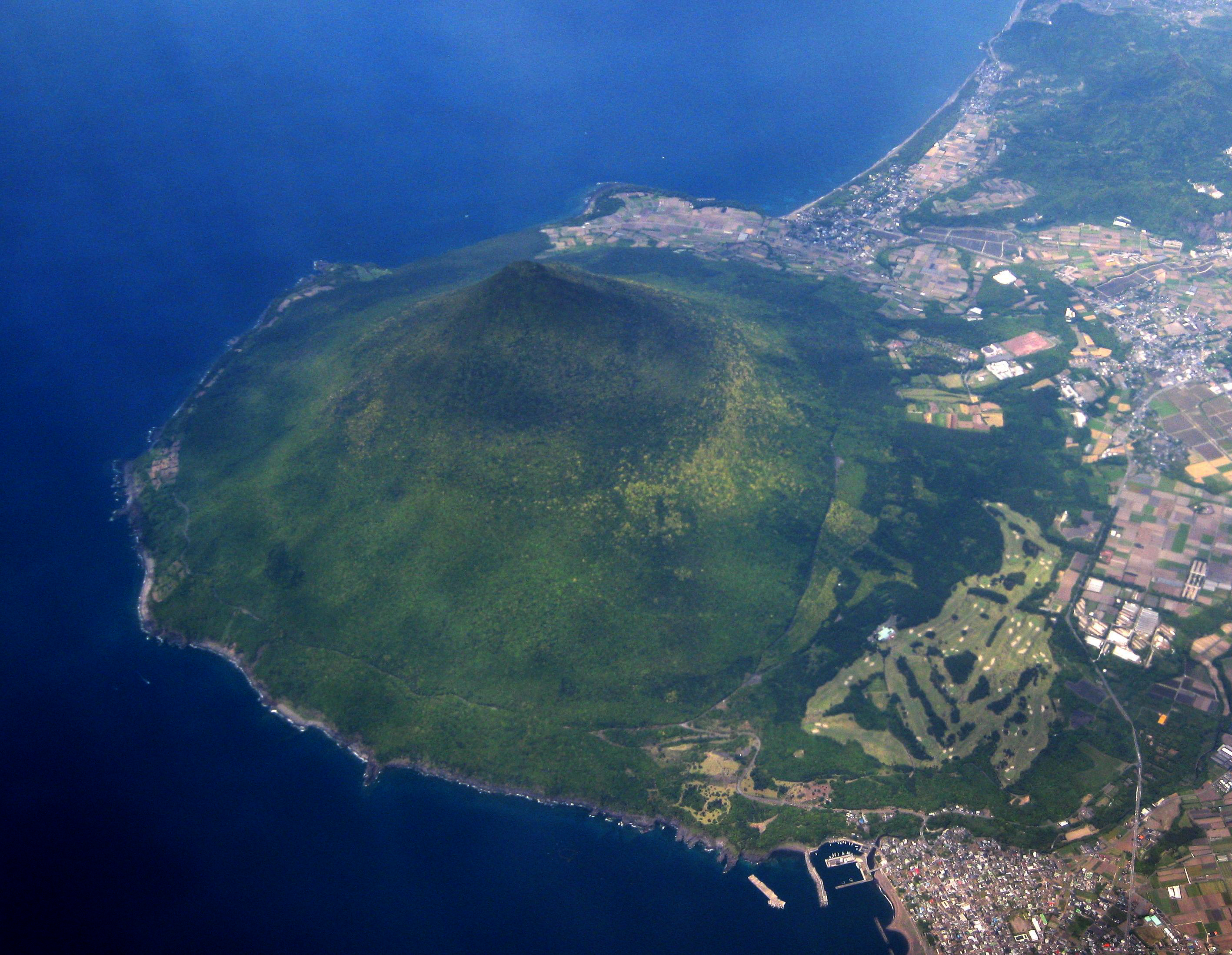 Kaimondake volcano as seen from the southeast in Kagoshima Prefecture, Japan.